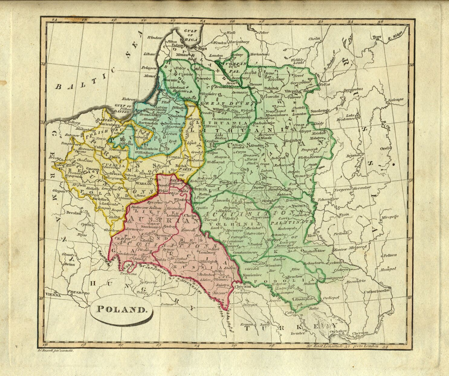 Third Partition of the Polish–Lithuanian Commonwealth in 1793 among Prussia, the Austrian Empire, and the Russian Empire displayed in *Ostell's New General Atlas* (London: Cradock and Joy, 1814)